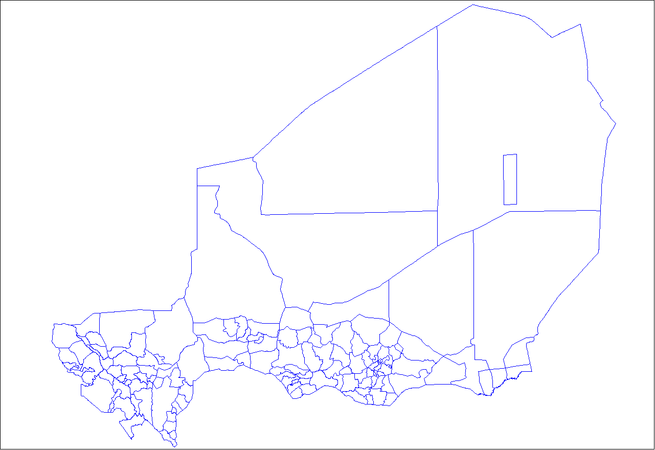 This map has been uploaded by Electionworld from to enable the Wikimedia Atlas of the World . Original uploader to was Rarelibra, known as Rarelibra at . Electionworld is not the creator of this map. Licensing information is below. Map of the communes of Niger. Created by Rarelibra 19:01, 13 September 2006 (UTC) for public domain use, using MapInfo Professional and various mapping resources.